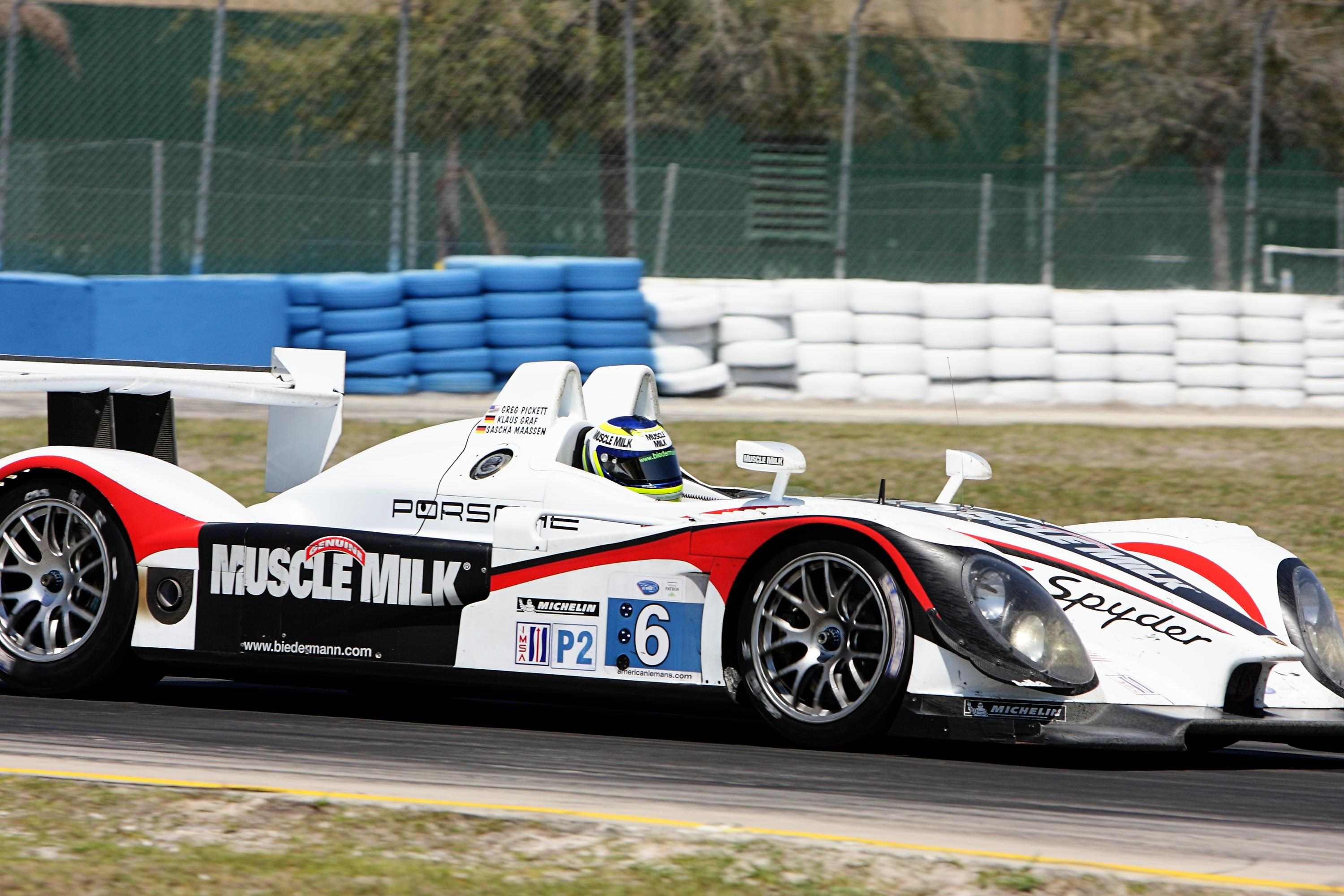 LMP2 class winner. Muscle Milk Team Cytosport Porsche RS Spyder Evo. Drivers Greg Pickett, Klaus Graf, Sascha Maassen.